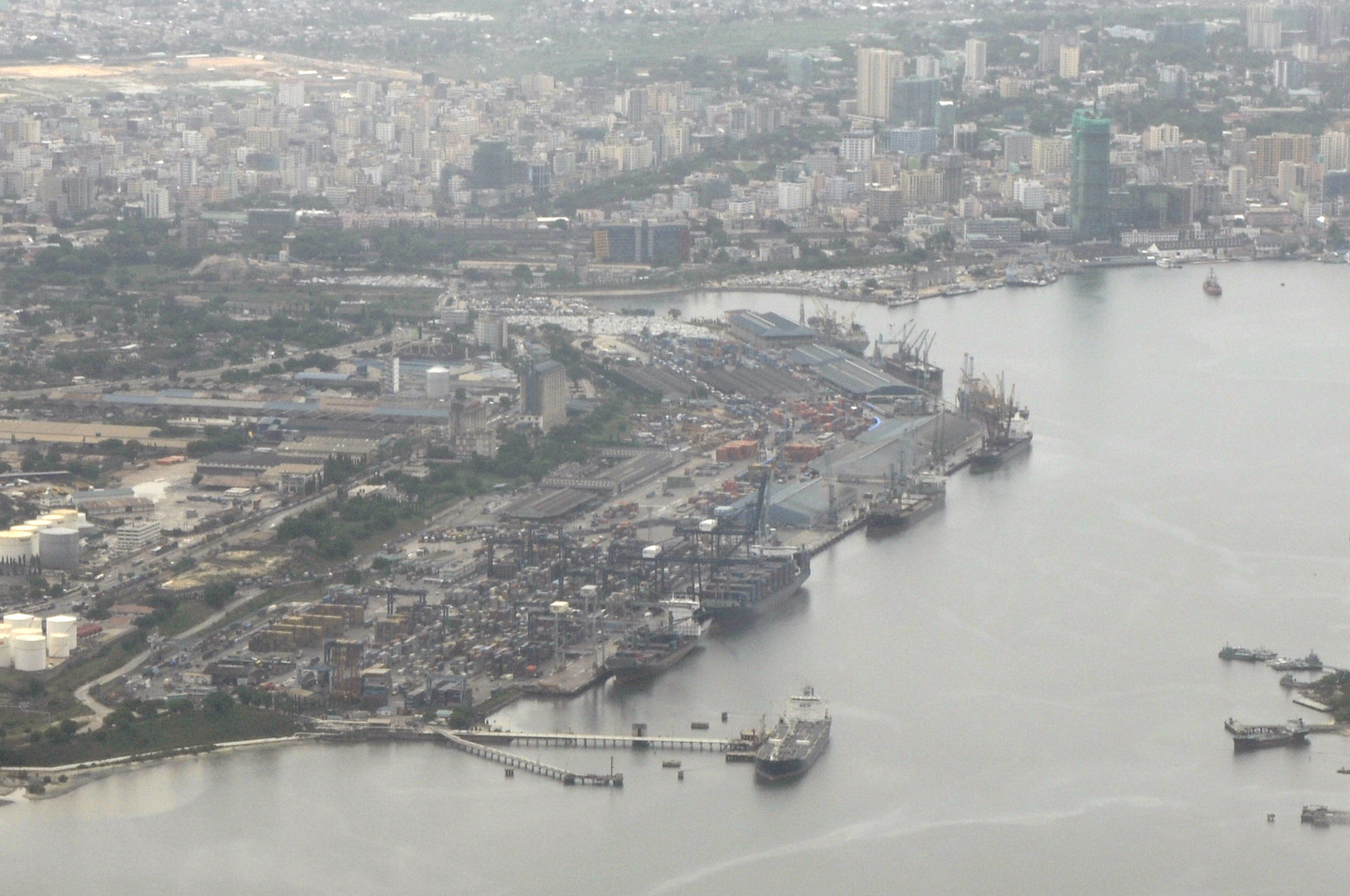 The bird's view of the harbour in Dar es Salaam.